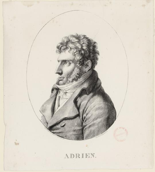 Engraving of Martin-Joseph Adrien by Pierre-Narcisse Guérin